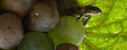 From author: "A bee feasting on a rotten grape."